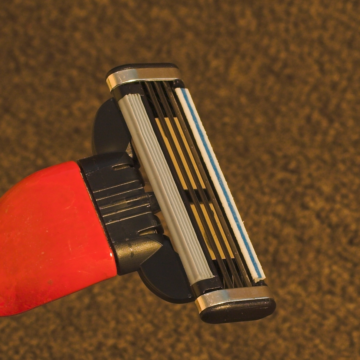 The disposable blade of a modern safety razor. Photo by Thermos.